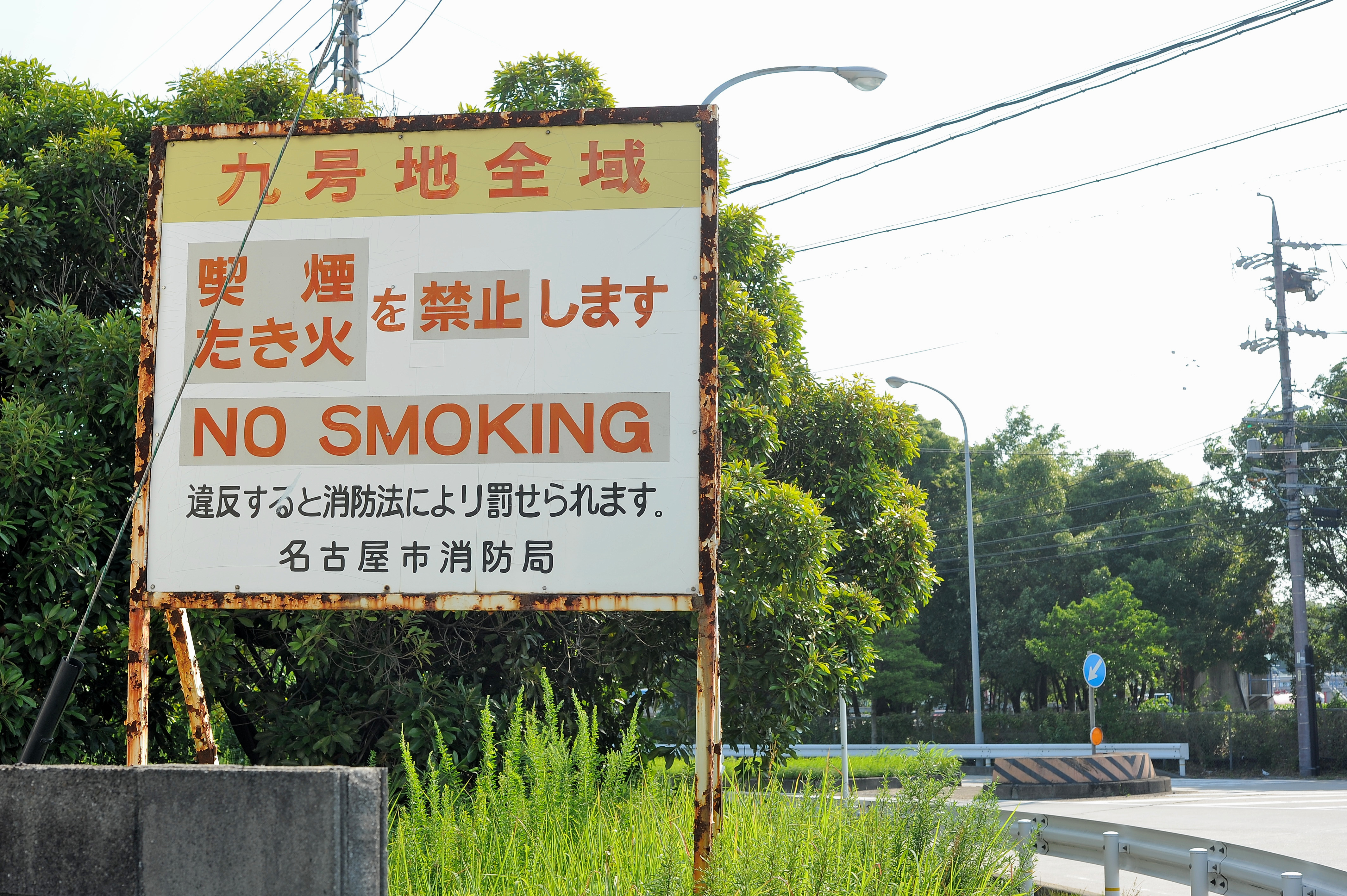 Sign "no smoking or fire in Area No. 9", Nagoya, Aichi